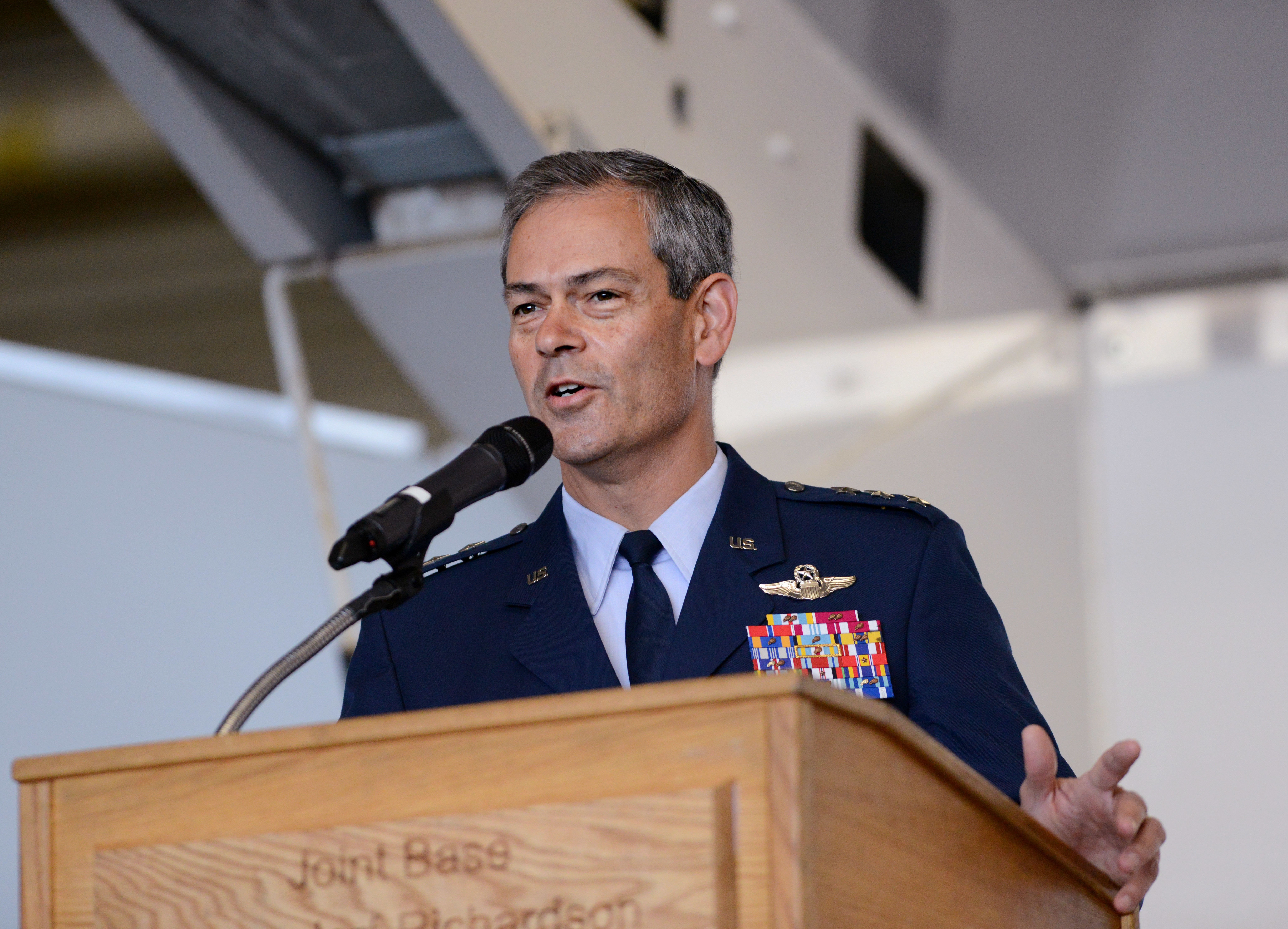 Lt. Gen. Kenneth S. Wilsbach, commander of Alaskan North American Aerospace Defense Command Region, Alaskan Command, U.S. Northern Command, and Eleventh Air Force, makes remarks at the 673d Air Base Wing change of command ceremony July 13, 2018 at Joint Base Elmendorf-Richardson, Alaska. 673d ABW commander Col. George T.M. Dietrich III turned over command to Col. Patricia A. Csànk. (U.S. Air Force Photo by Jamal Wilson)